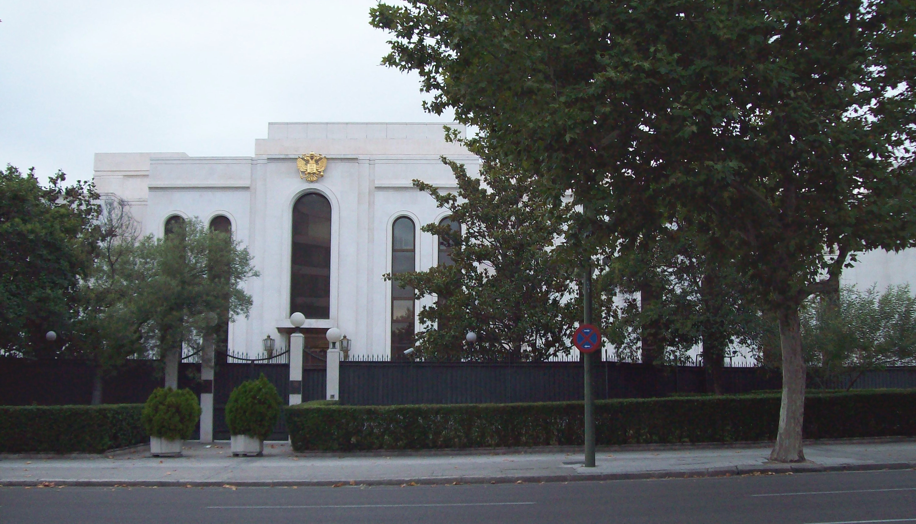 East façade of Russian Embassy in Madrid (Spain).